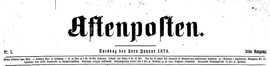 The top of the front page of the norwegian newspaper Aftenposten from the 2nd of January 1879.